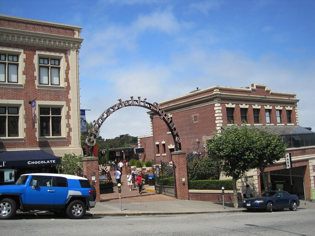 Ghirardelli Square, ingresso